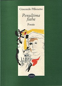 Il libro Penultima Fiaba di Giocondo Pillonetto.